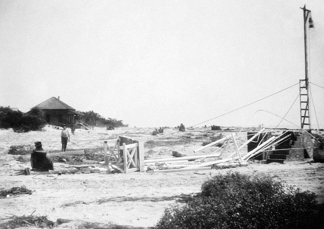 A range light on St Simons Island, Georgia (U.S. state), toppled by the 1896 Cedar Keys hurricane on September 29, 1896.